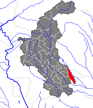 This map shows the area of the Gemeinde (municipality) Gersdorf an der Feistritz in the Bezirk (district) Weiz, Styria, Austria.